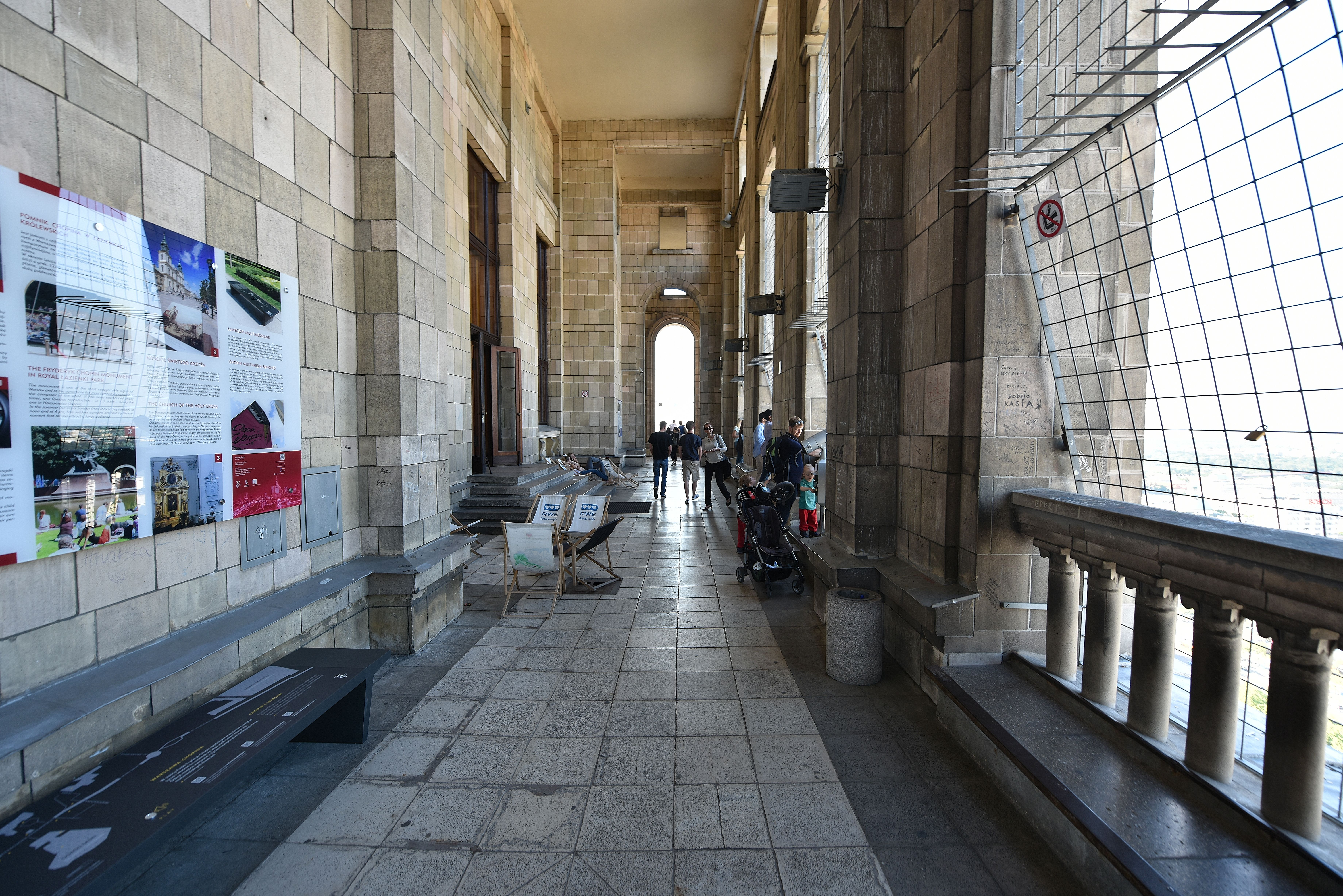 Vieving terrace on the 30th floor (114 m) of the Palace of Culture and Science in Warsaw